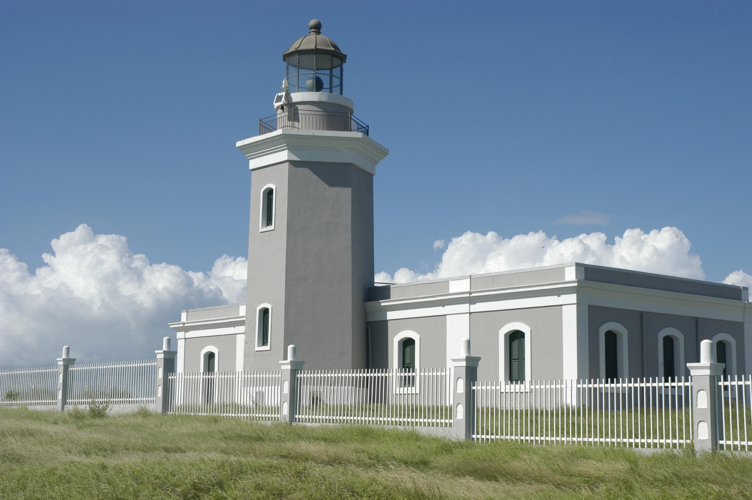 Los Morrillos Lighthouse, Cabo Rojo Puerto Rico. circa 2005